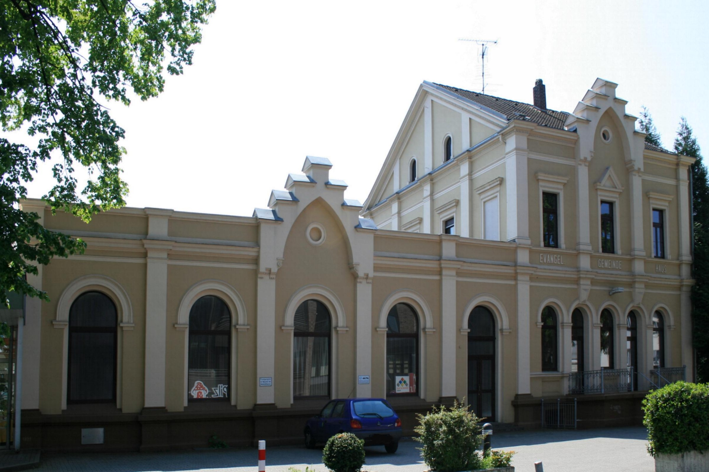 Cultural heritage monument No. P 011 in Mönchengladbach